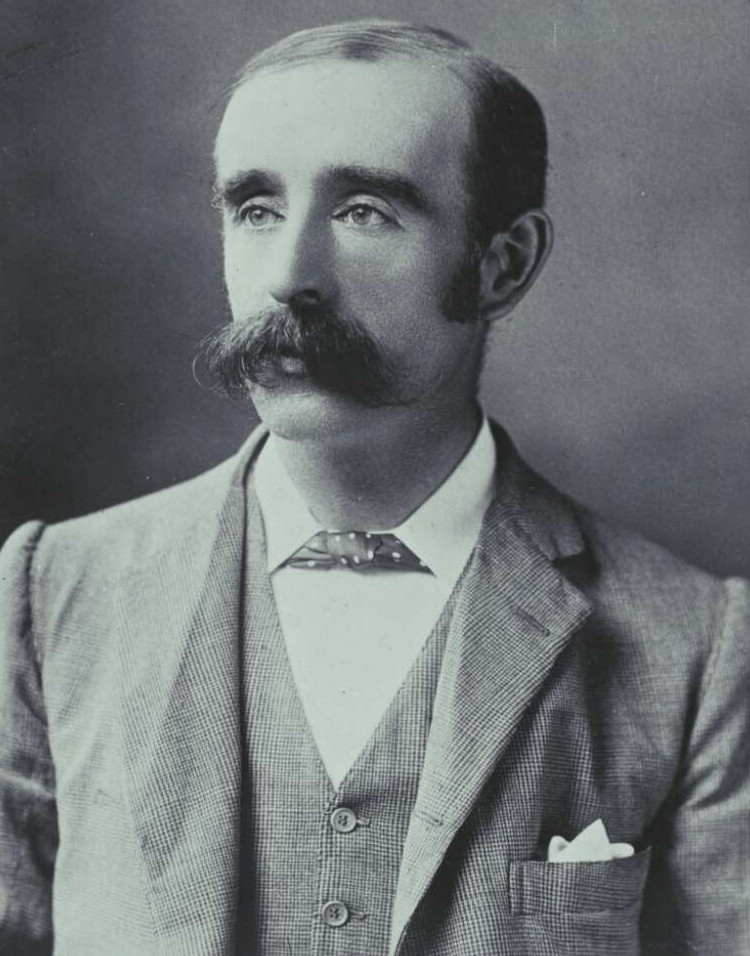 This image shows a photograph of Patrick Glynn, Australian politician, taken in 1898.